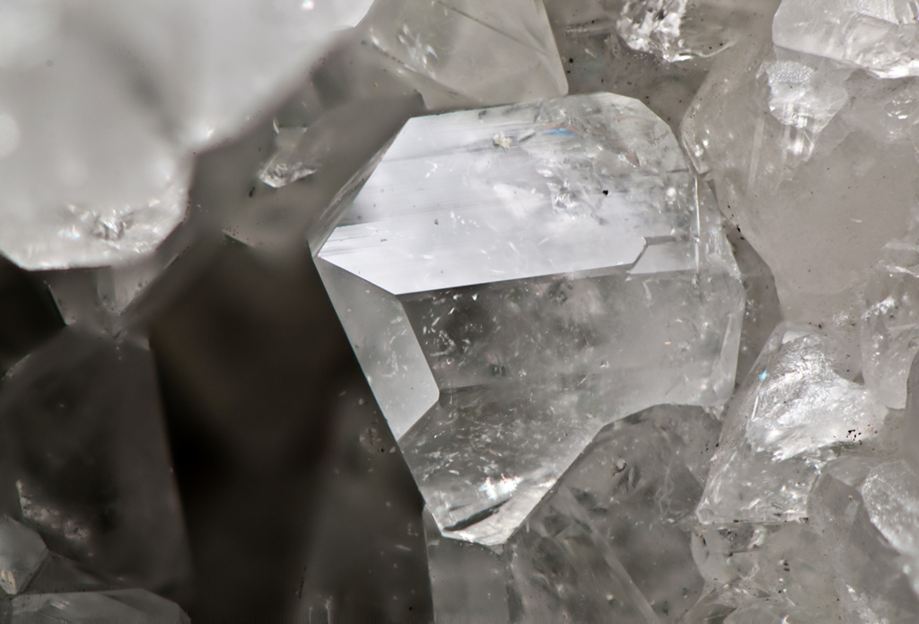 Datolite Locality: Futa Pass, Firenzuola, Florence Province, Tuscany, Italy Original description: Beautiful crystal of 6 mm, transparent. Collection and photo of Gianfranco Ciccolini